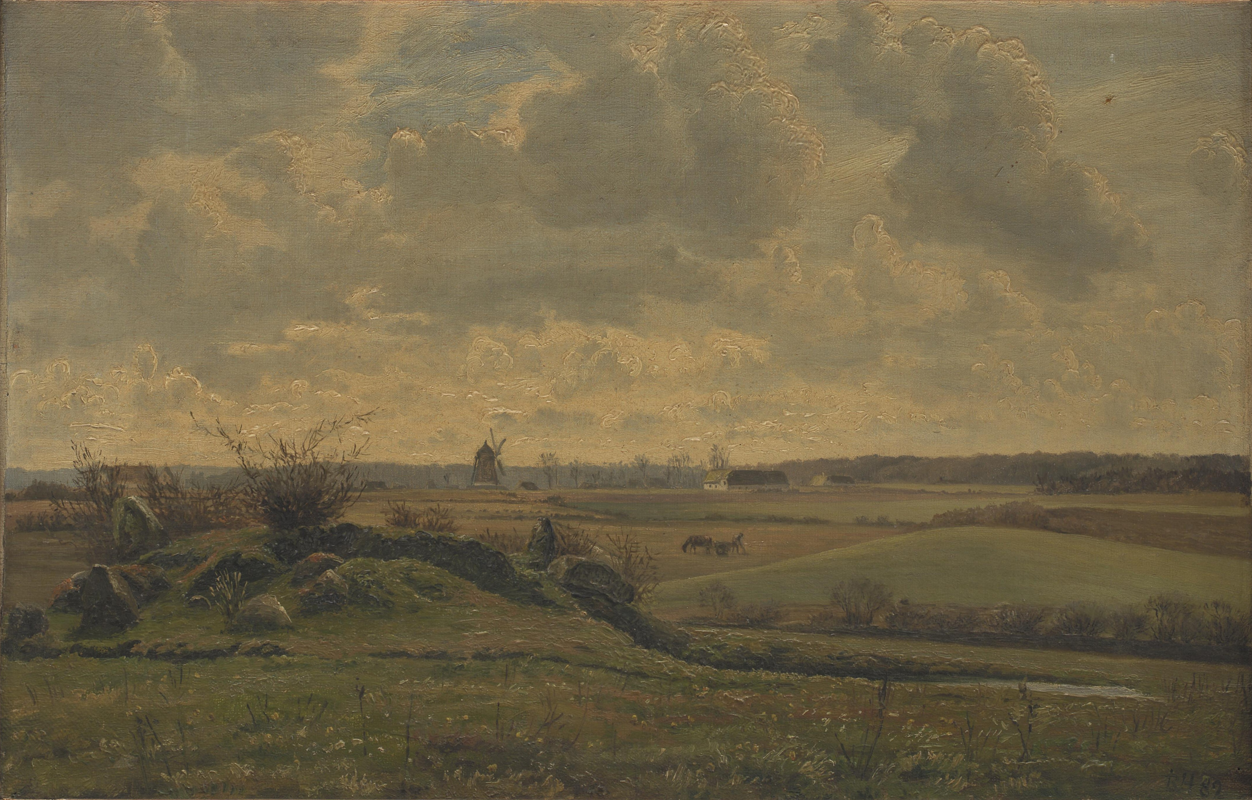 Louise Ravn-Hansen (1849-1909), Landscape at Gyrstinge, 1882